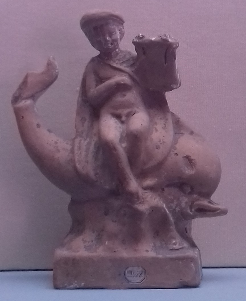 Terracotta sculpture Arion on the Dolphin. Odessa Archeological Museum